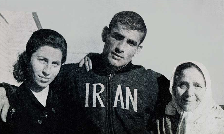 Emam-Ali Habibi with mother and wife